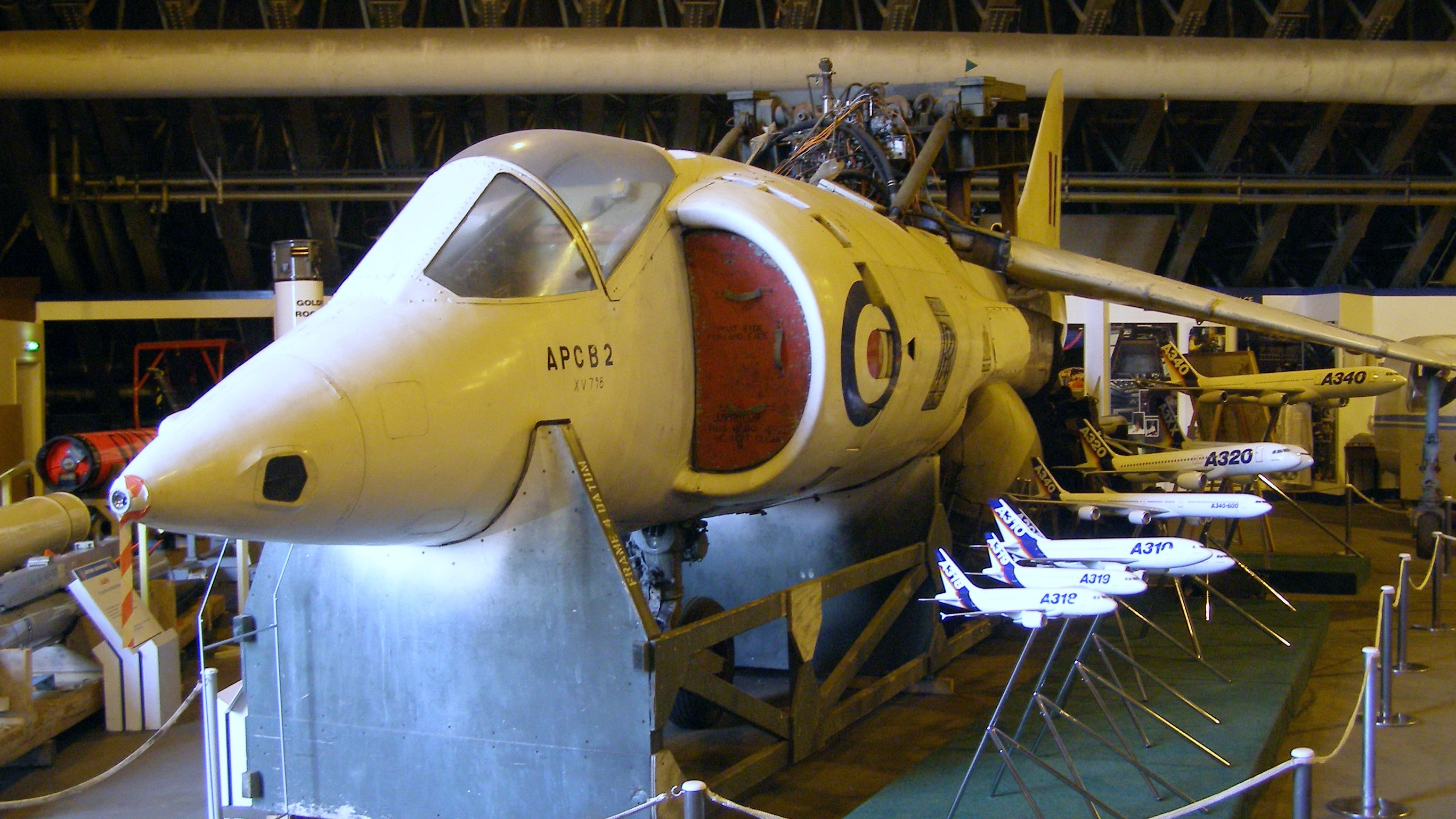 XV798 a Hawker Siddeley Harrier GR.1 on display at the Bristol Aero Collection at Kemble, England. Withdrawn from serivce after a crash on 23 April 1971 it was used by Rolls-Royce as a static engine test bed for a supersonic variant of the Harrier